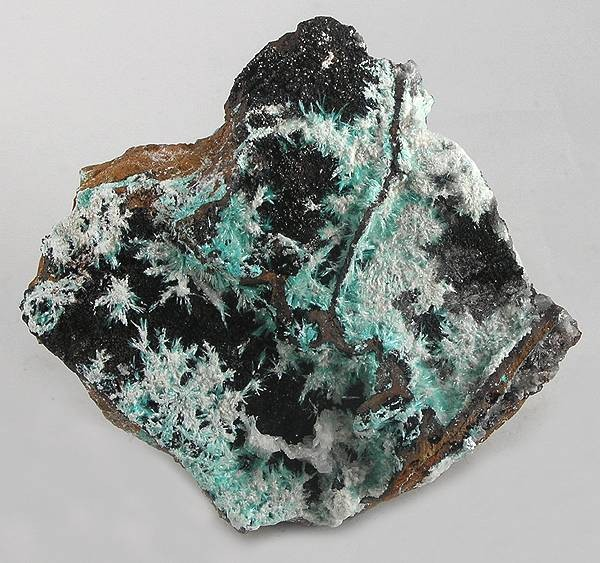 Aurichalcite, Plattnerite, Limonite Locality: Mapimí, Municipio de Mapimí, Durango, Mexico (Locality at ) Look at the beautiful patterns of snowflake-like plattnerite against a backdrop of deep green aurichalcite on this limonite matrix! A rich and pretty old Mapimi combo specimen! 7.9 x 7.9 x 4.9 cm